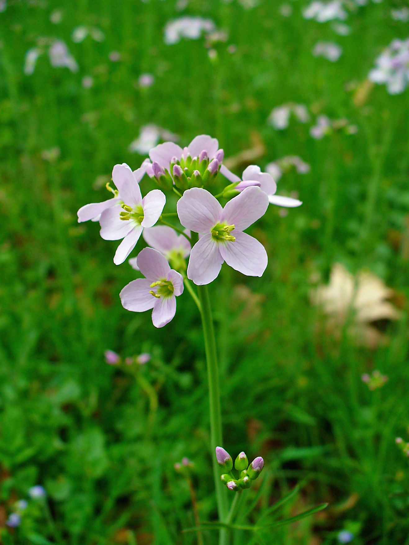 Cardamine pratensis, Brassicaceae, Cuckoo Flower, Lady's Smock, inflorescence; Karlsruhe, Germany. The fresh aerial parts of the blooming plant are used in homeopathy as remedy: Cardamine pratensis (Carda.)